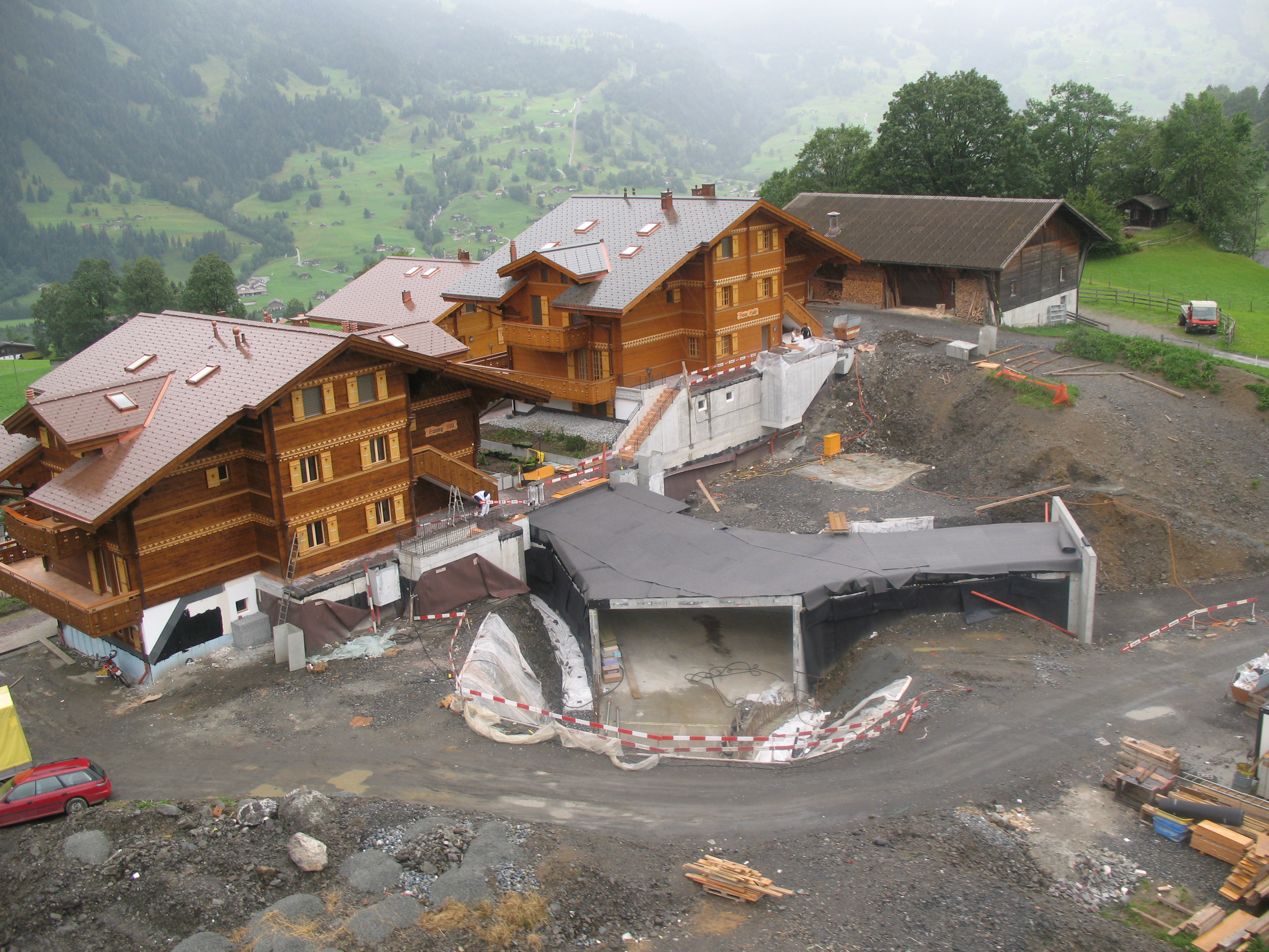 A new house viewed from the First gondola lift, Grindelwald, Switzerland